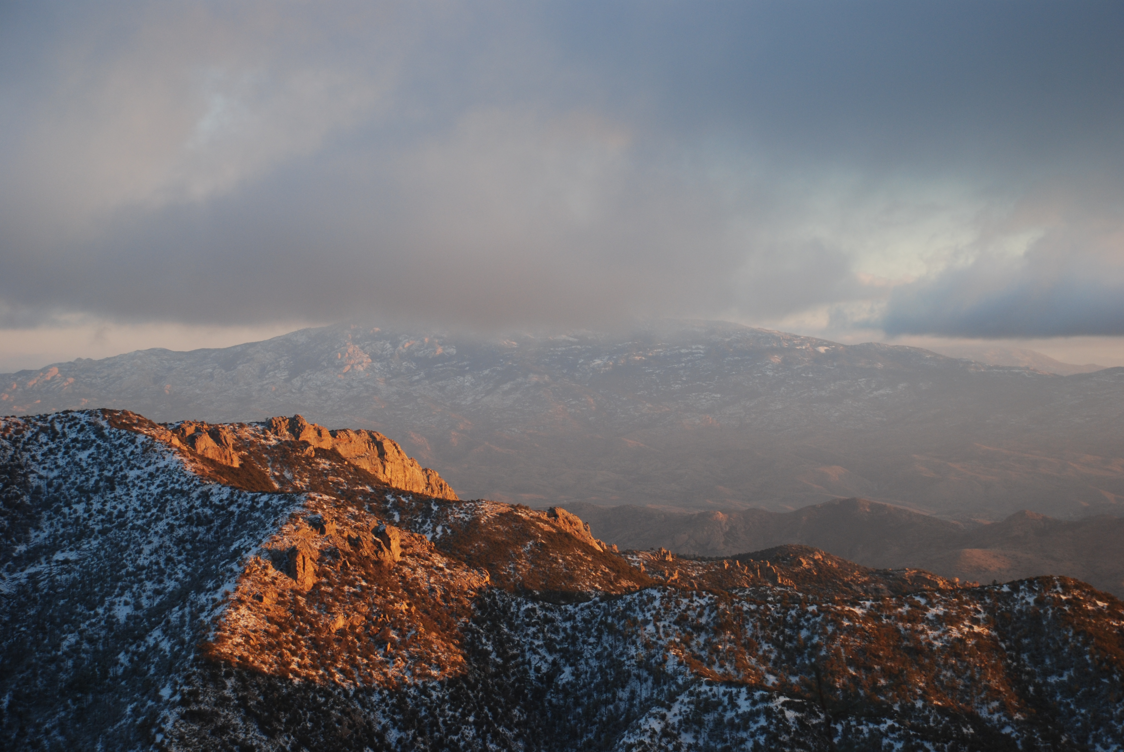 Mica Mountain obscured by winter clouds